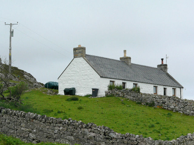 House below Ceannabeinne